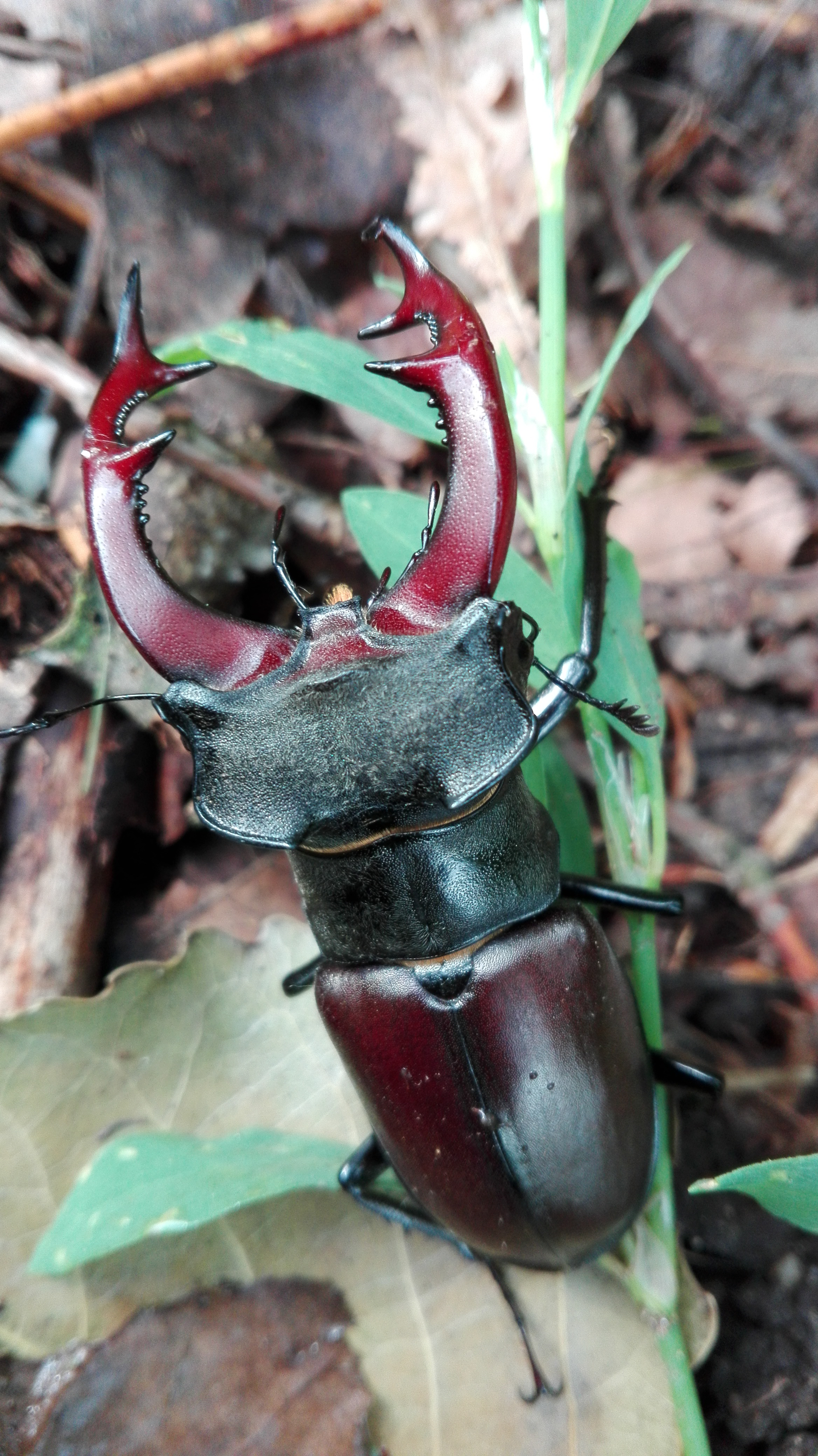 Lucanus cervus